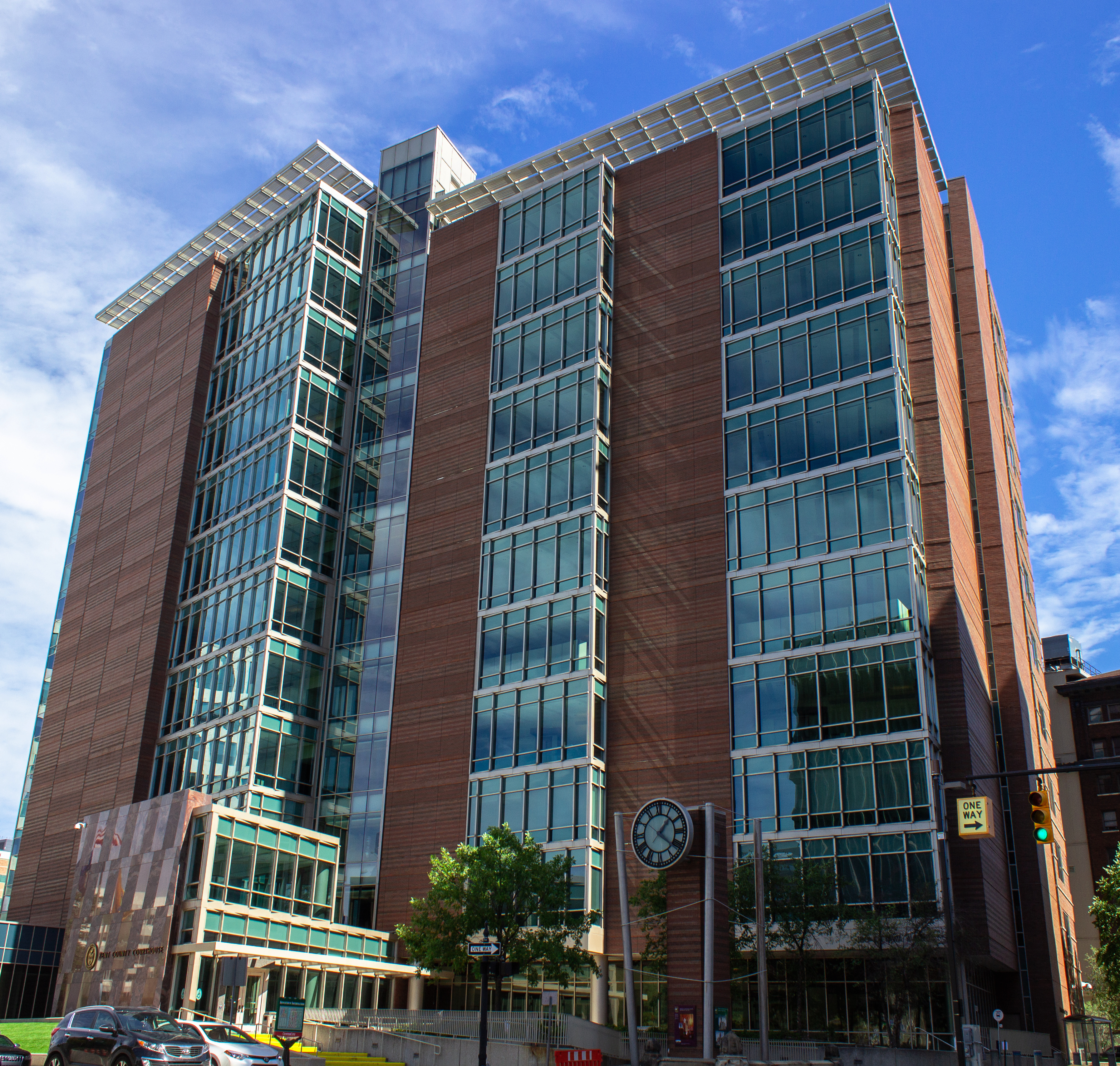 Kent County Courthouse Grand Rapids, Michigan